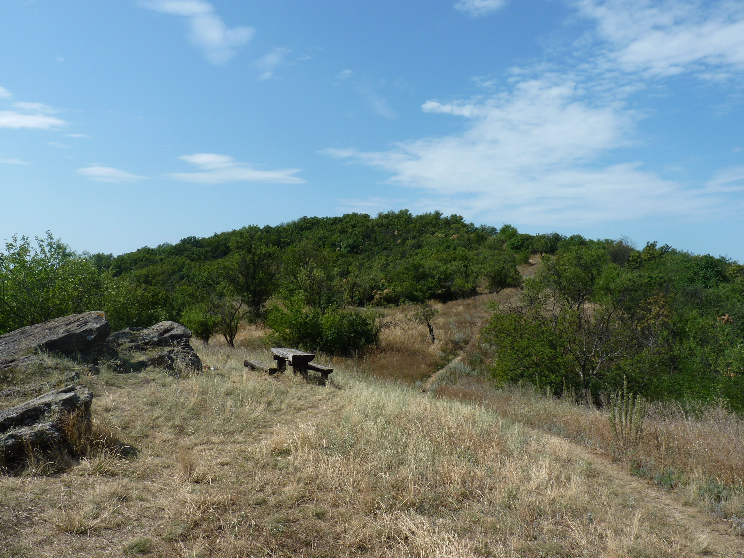 Kis-erdő-tető hill near Tihany